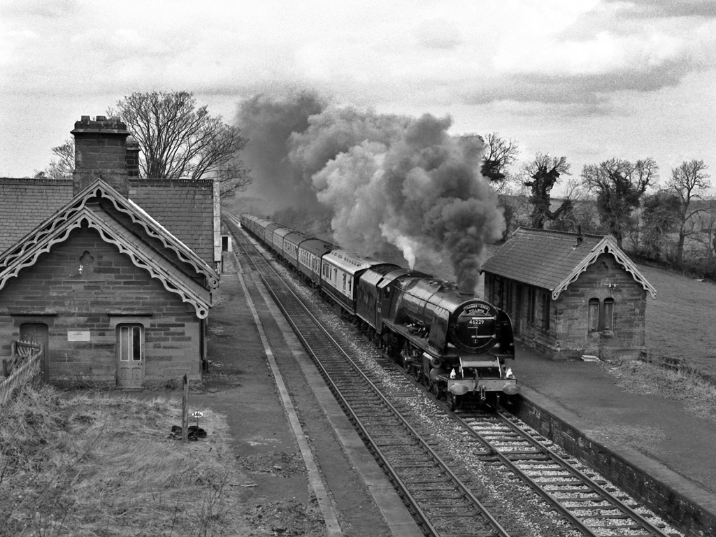 British Railways rebuilt ex London Midland and Scottish Railway Stanier 8P 4-6-2 'Coronation' class locomotive number 46229 DUCHESS OF HAMILTON of Crewe North MPD passes through the closed Cumwhinton station on the Up Main line with the 14:25 (Additional) Carlisle to ? 'Thames-Eden Pullman' return charter which it hauled between Carlisle and Leeds. Saturday 23rd April 1983